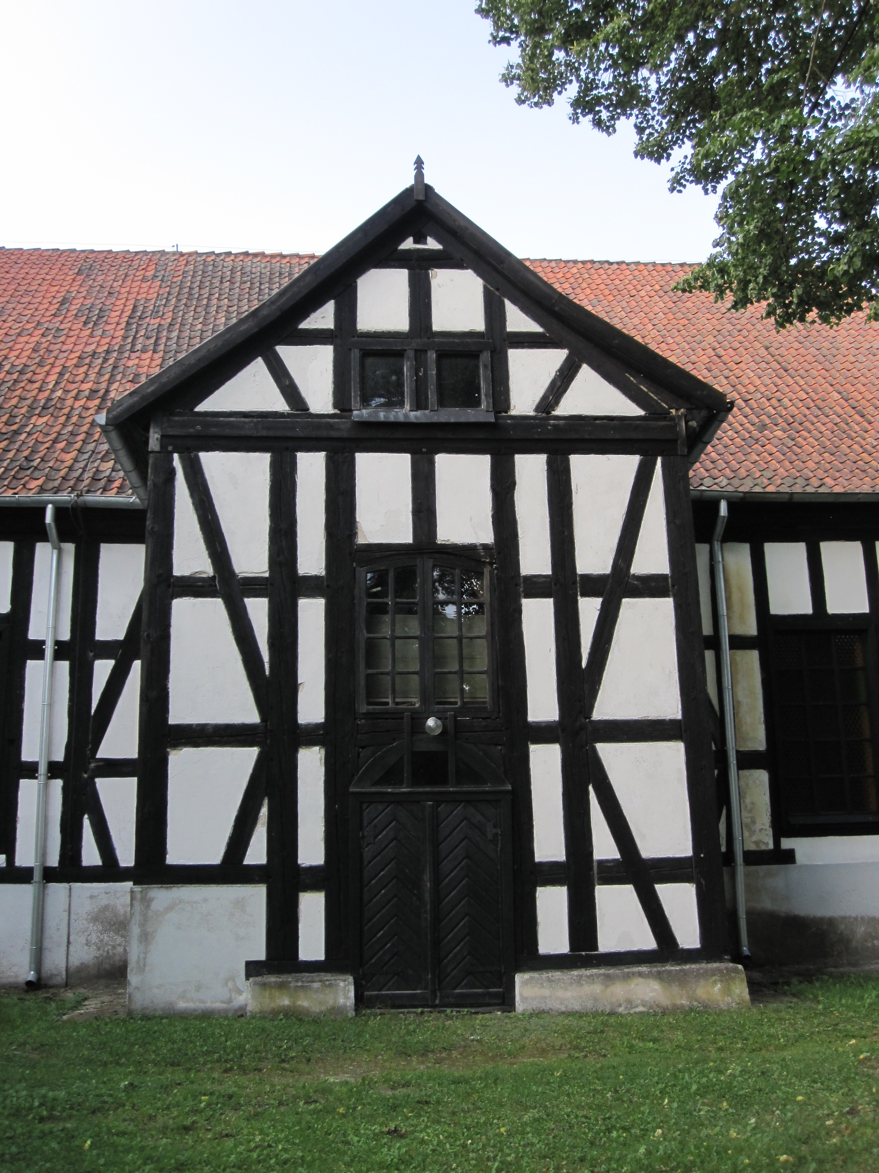 Maximilian Kolbe church in Jerutki